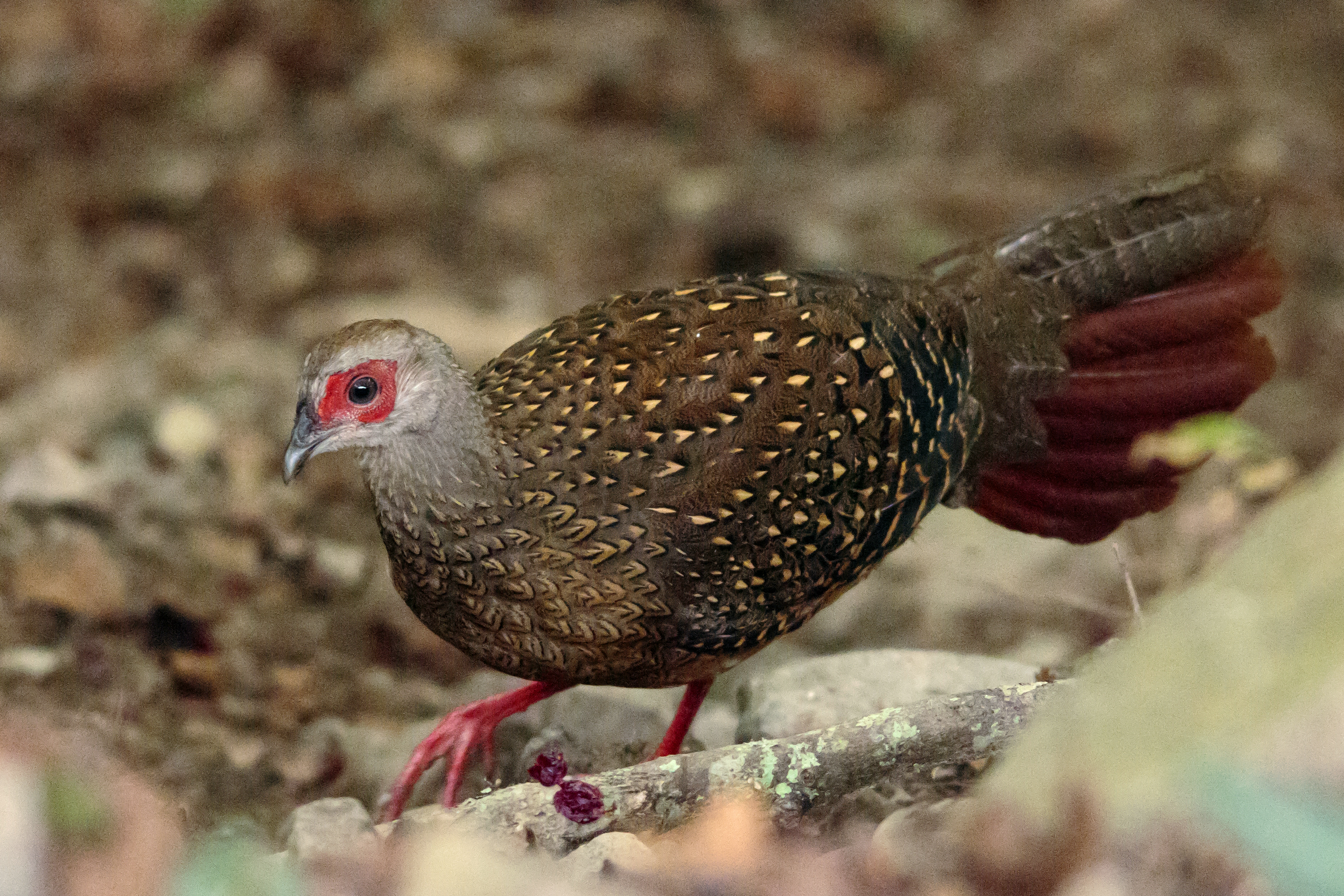 Female Swinhoe's Pheasant (Lophura swinhoii) hotographed at Dasyueshan National Forest Recreation Area